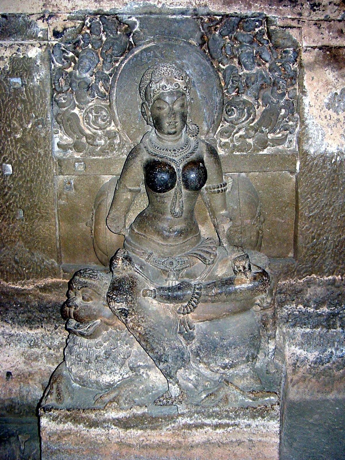 Sidaika. Cave 32, Ellora Sidaika is the Jain goddess of generosity.